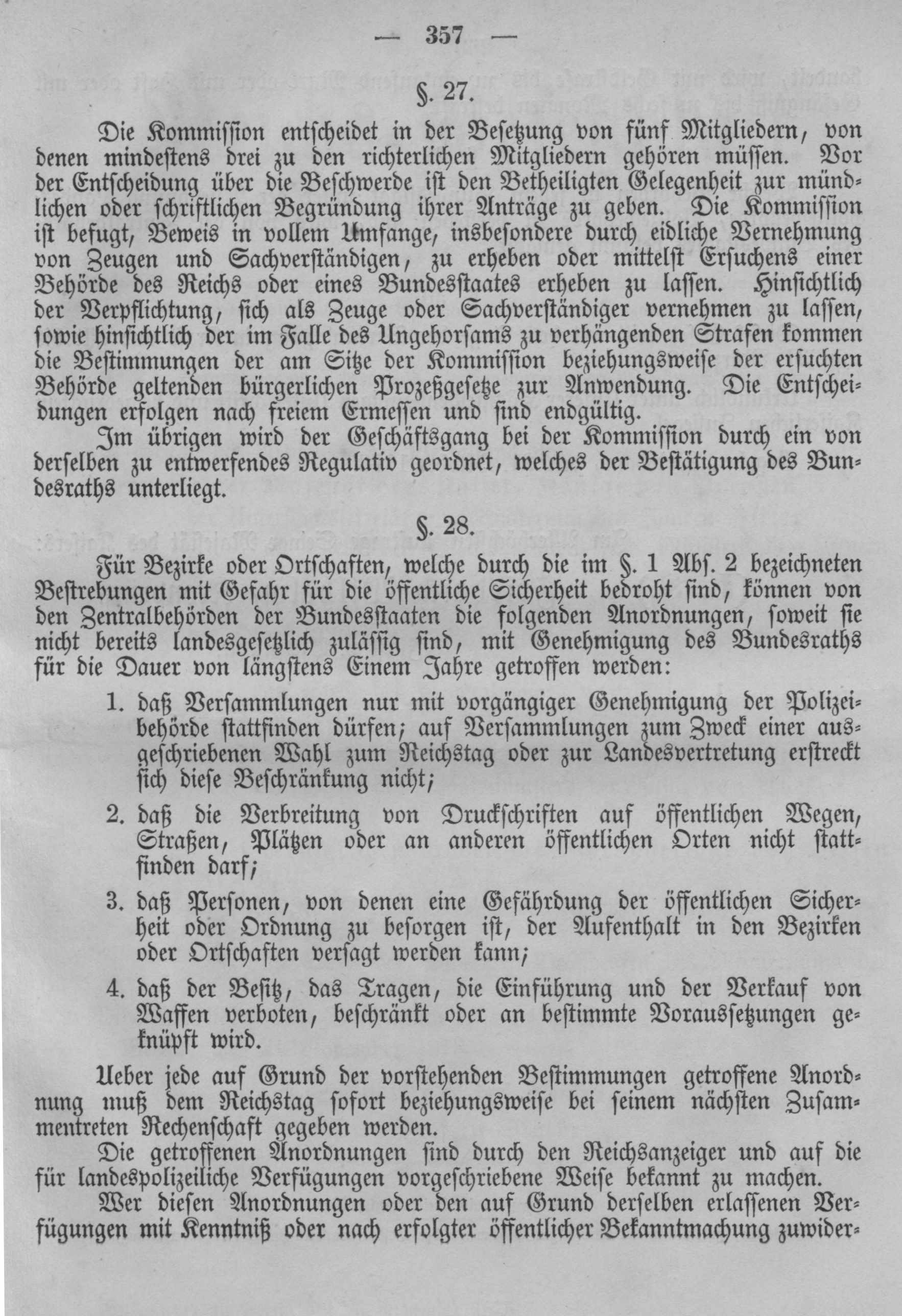 Scan from the Imperial Law Gazette of Germany, 1878